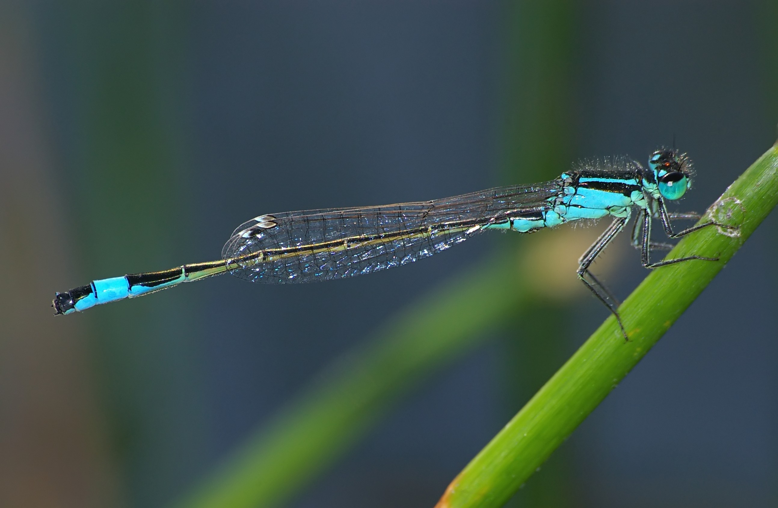 Male specimen of the damselfly Ischnura elegans (Blue-tailed damselfly).